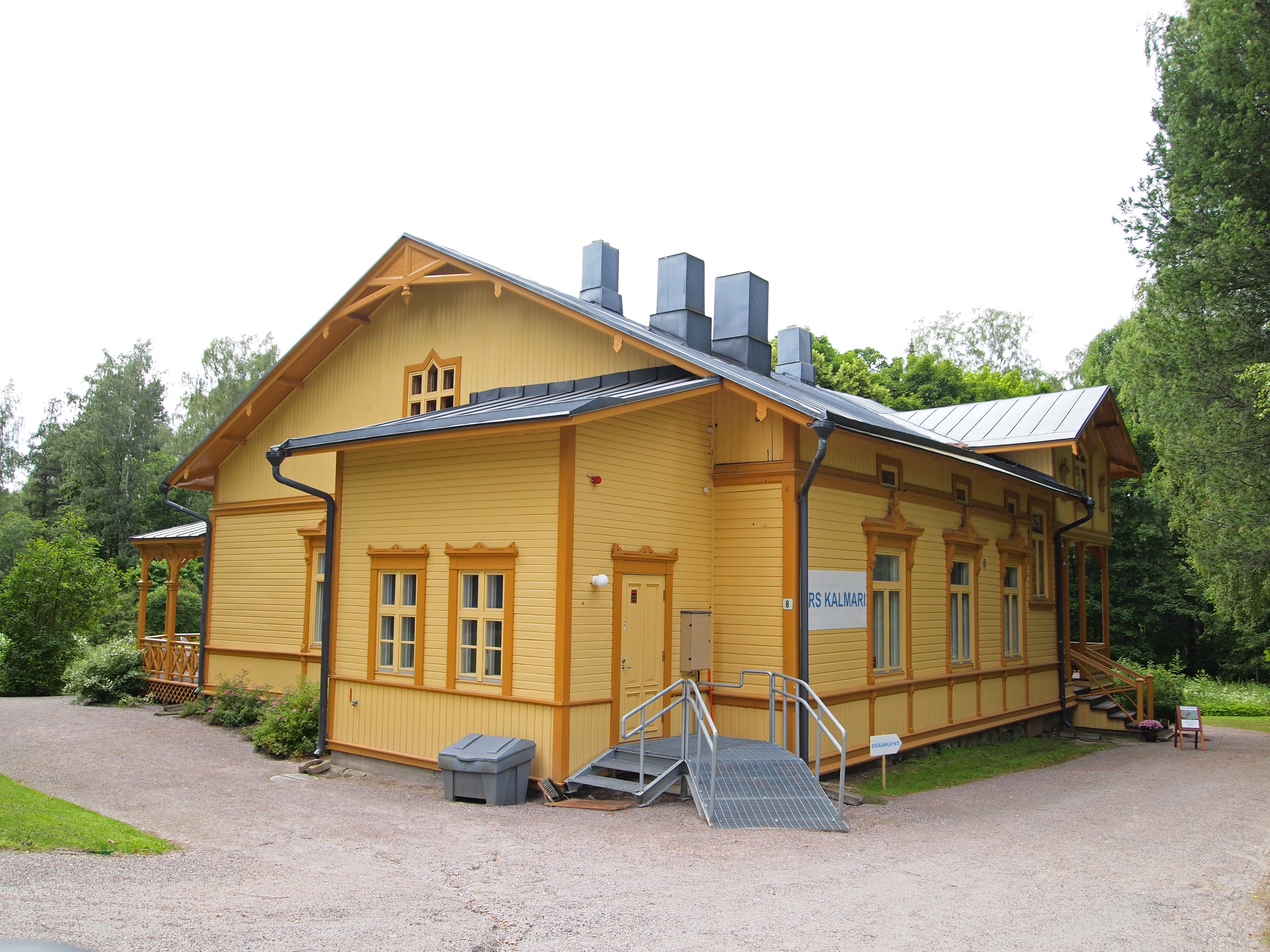 Yellow building "Danielson-Kalmarin huvila" in Vääksy, Asikkala. This photograph was taken with an Olympus E-PL1